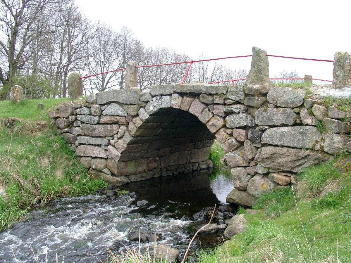 The old bridge Povlsbro on Hærvejen (the old "army road") in southern Jutland in Denmark. Seen towards East.